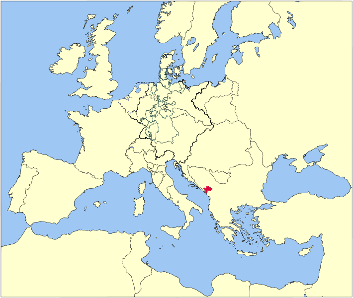 Map of the Prince-Bishopric of Montenegro (19th Century) in Europe